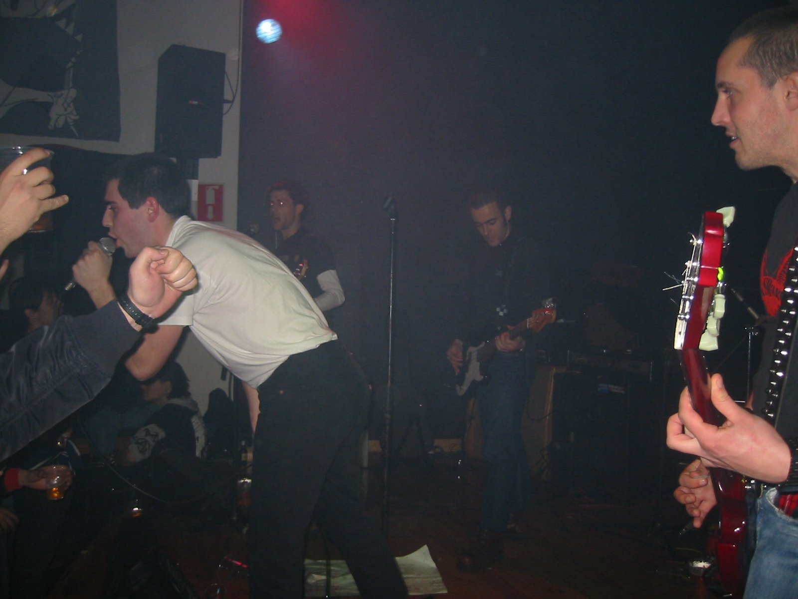 Ardi Galduak punk band.